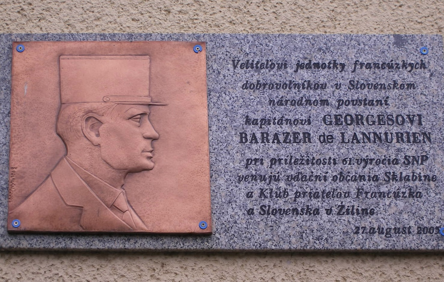 Sklabiňa - memorial plaque of Georges Barazer de Lannurien